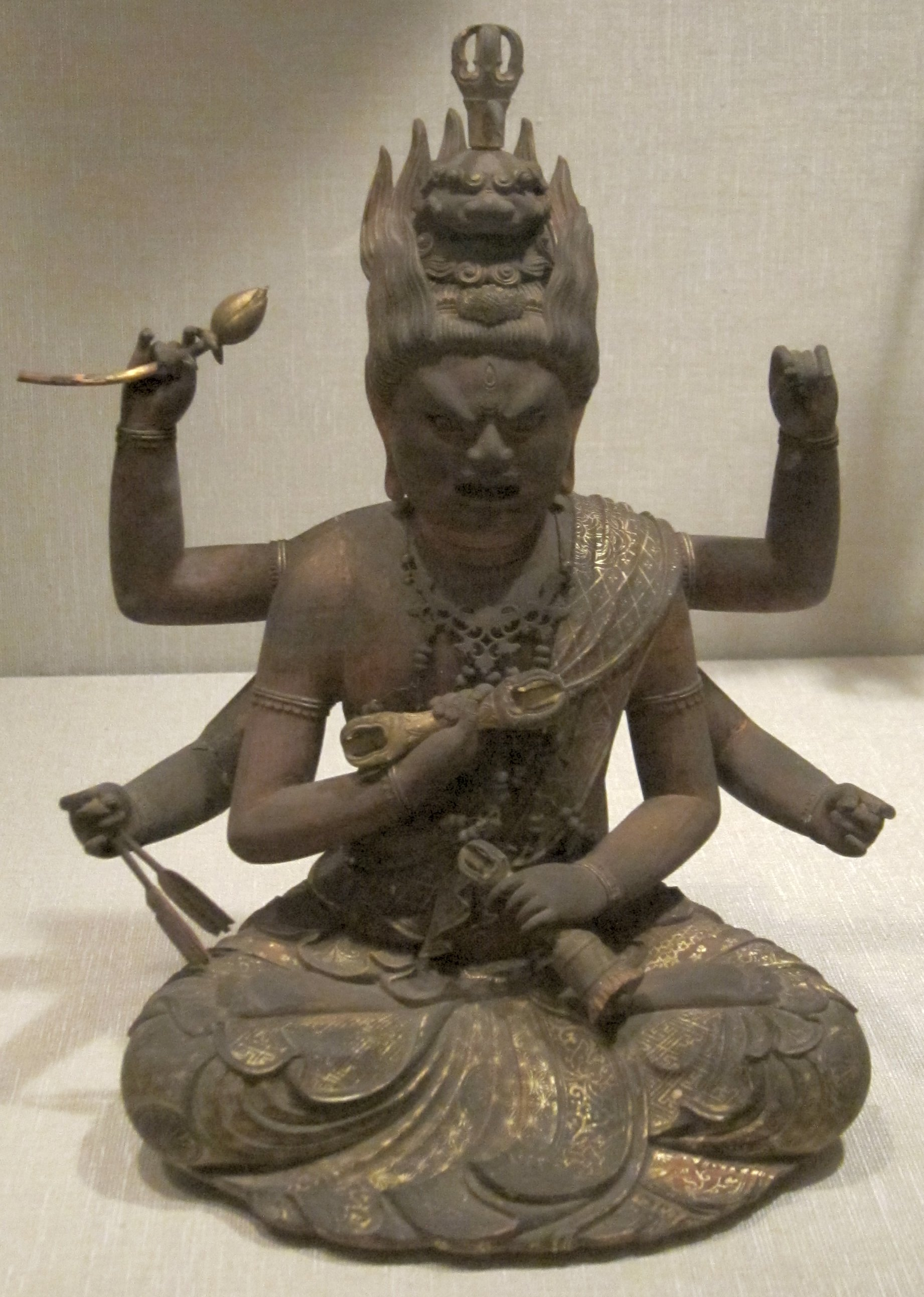 Aizen Myō-ō, Japan, Kamakura period, c. 14th century, wood, polychrome and gilding, Honolulu Academy of Arts